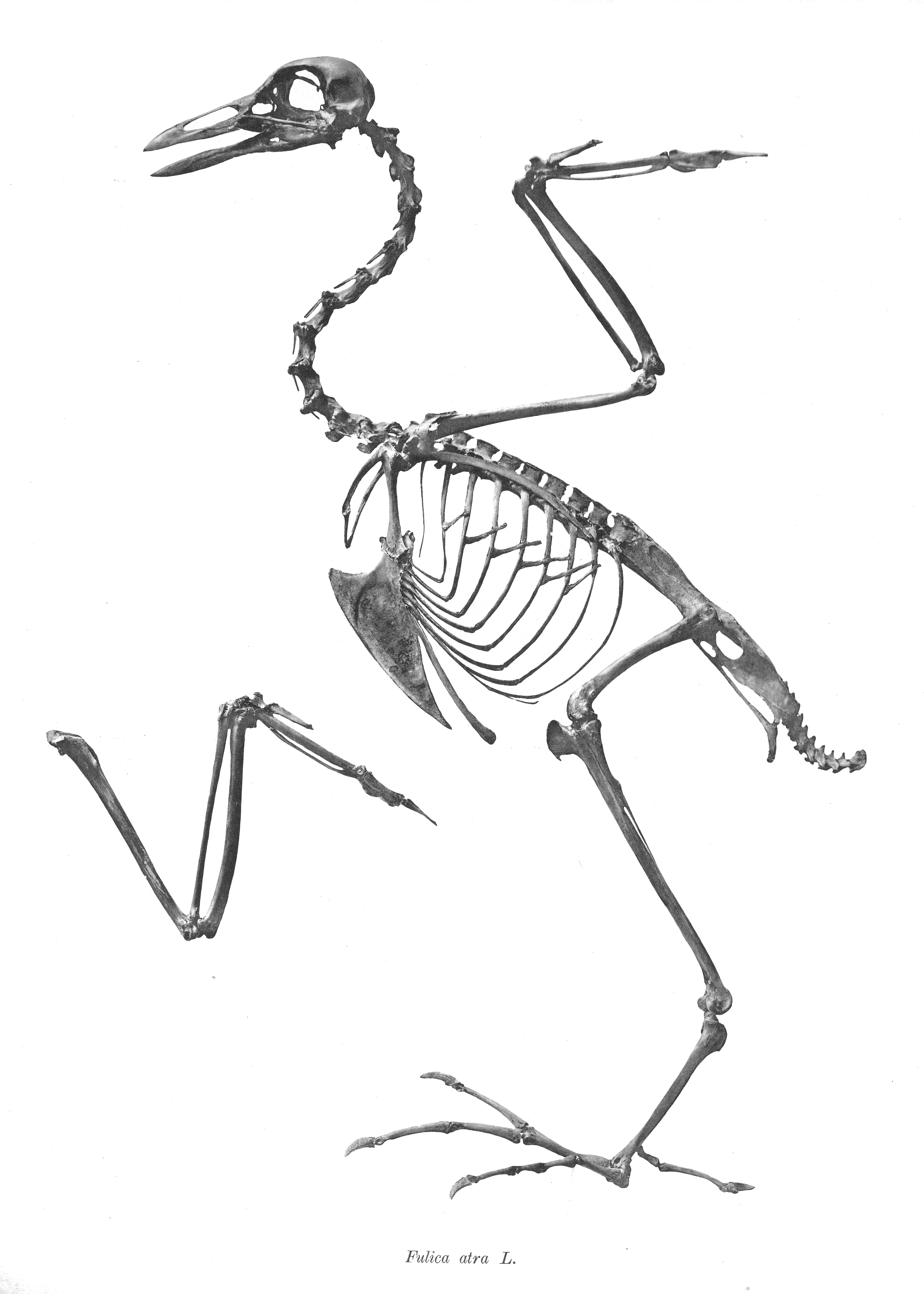 Fulica atra